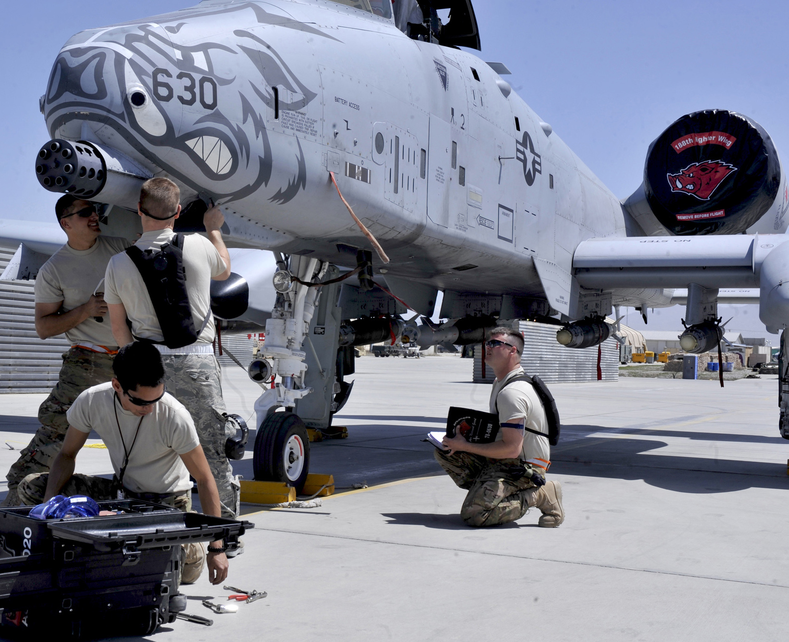 A 455th Expeditionary Aircraft Maintenance Squadron crew repairs an A-10 Thunderbolt II at Bagram Airfield, Afghanistan on April 6, 2012. The 455th EAMXS is responsible for repairing and maintaining military aircraft at Bagram Airfield as well as performing preventative maintenance inspections.